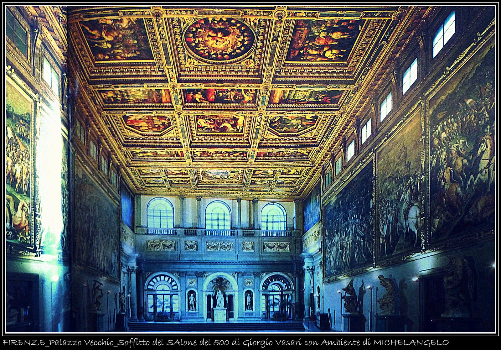 Florence, Italy